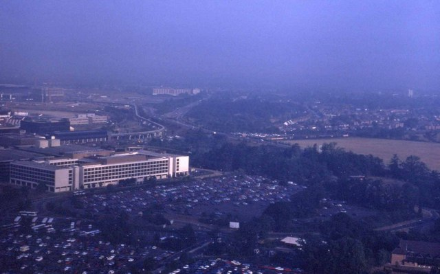 Flying back into Gatwick Airport after a week on the Greek island of Corfu. The prominent building on the left of the photo is the Hilton hotel at Gatwick. The houses in the distance on the right are in Horley.